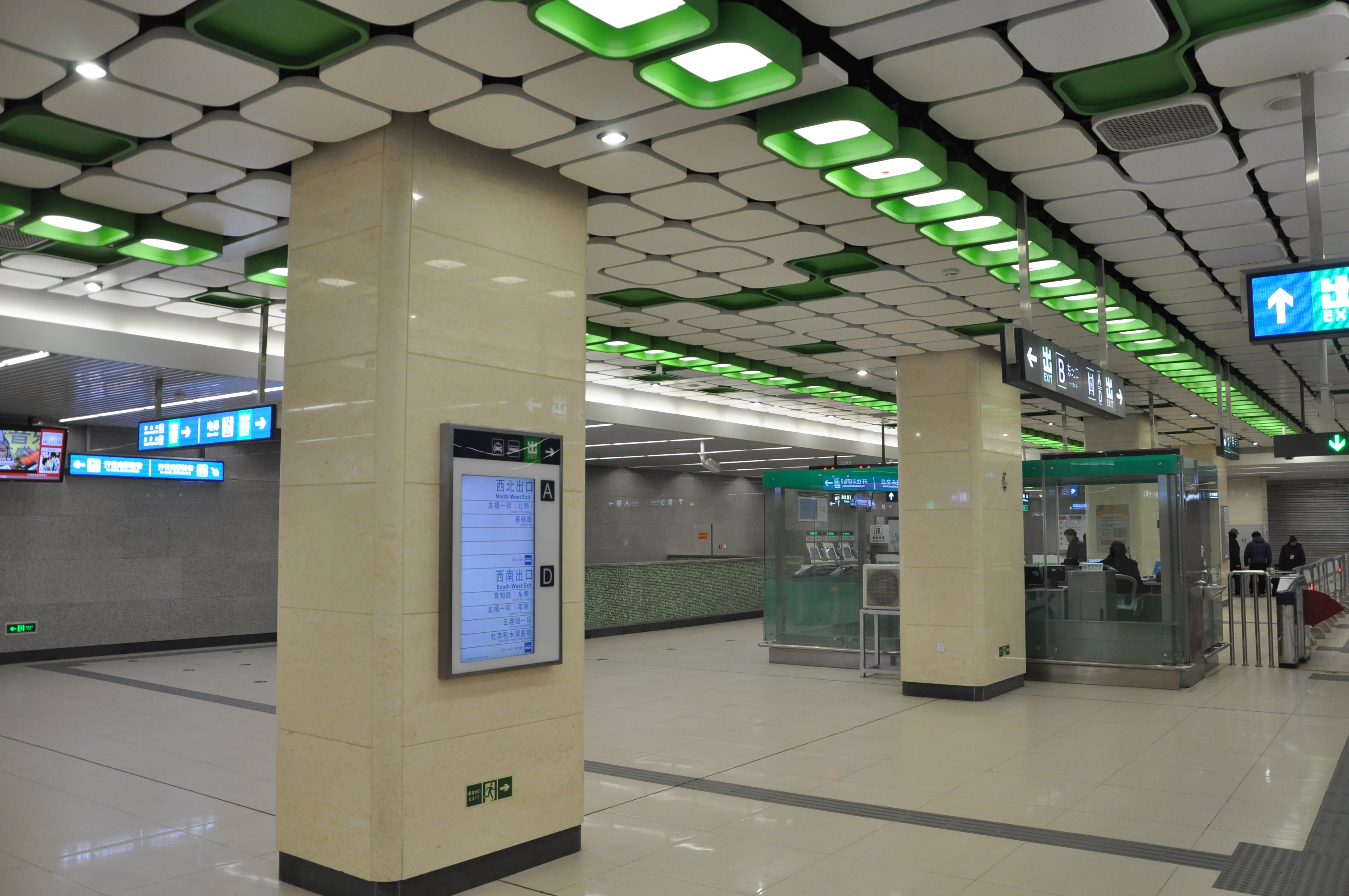 Concourse of Yuzhilu station, Line 8, Beijing Subway. The ceiling is decorated with two green line of lights.